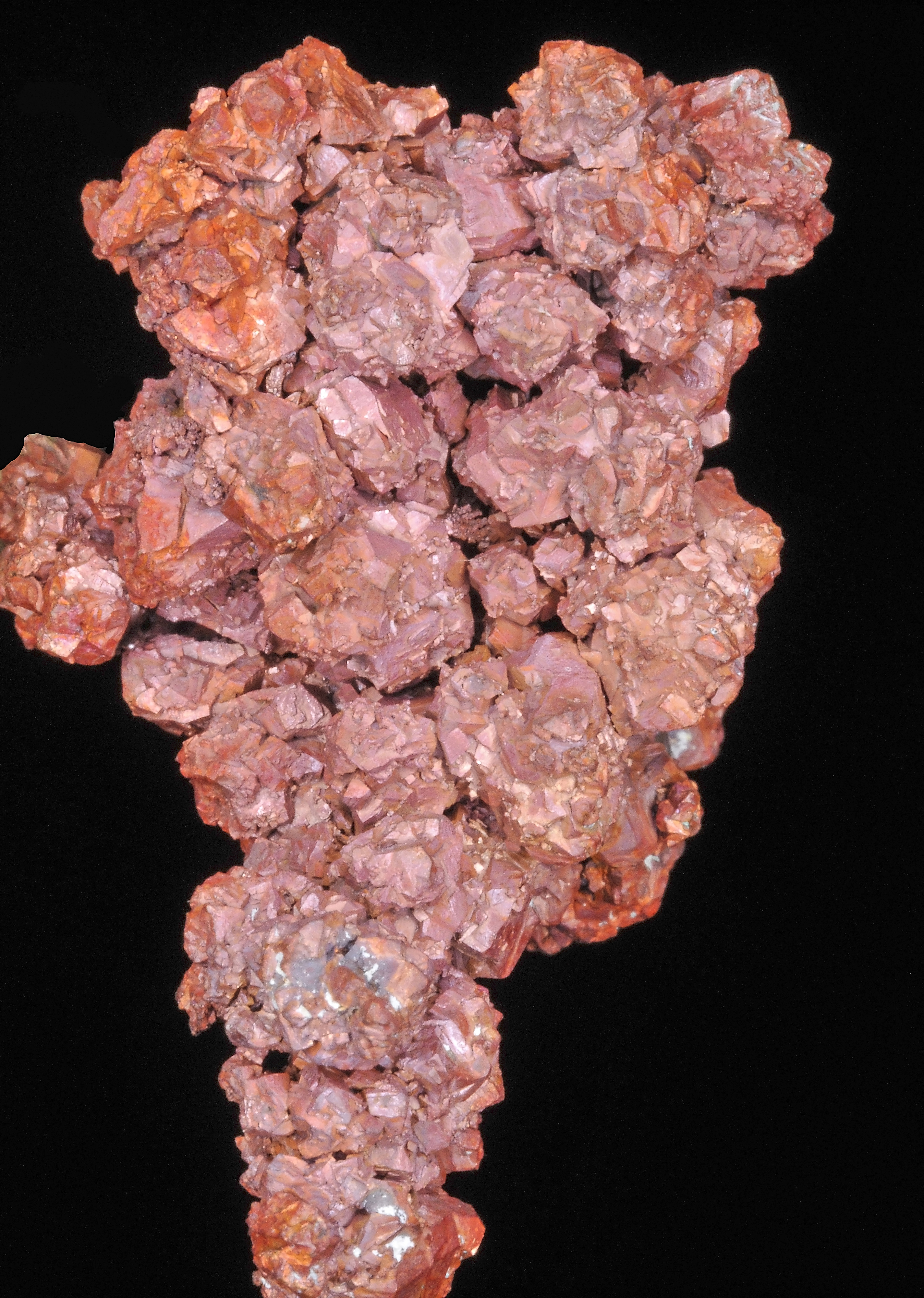 crystals of native copper : Langquan Au deposit, Leye Co., Baise Prefecture, Guangxi Zhuang Autonomus Region, China